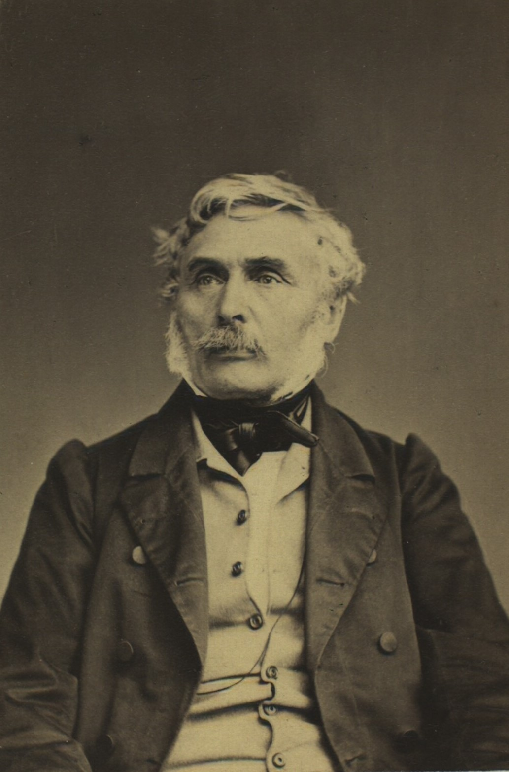 Anton Frederik Tscherning (1795-1874), Danish army officer, politician, MP, Minister of War